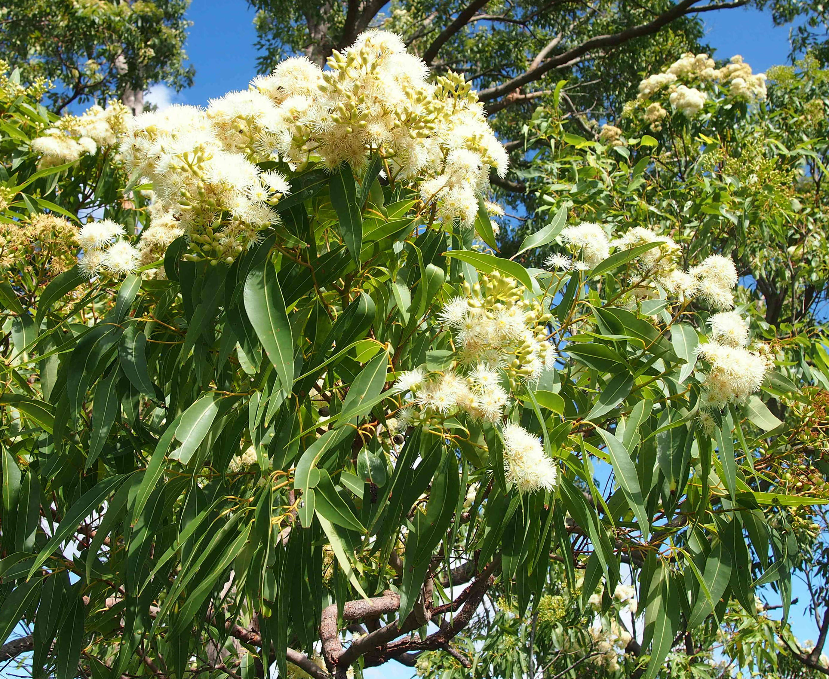 Corymbia intermedia flowers and foliag